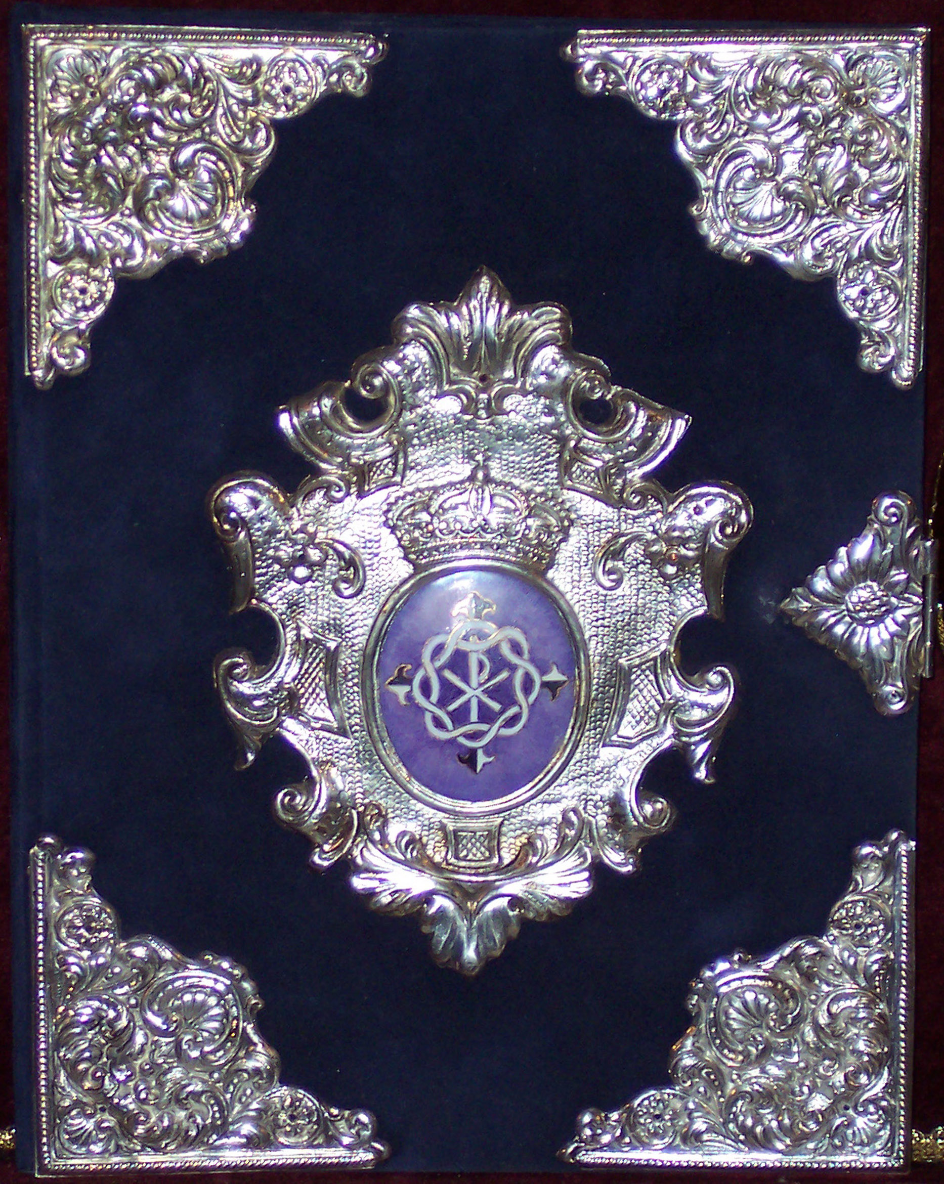 Rules Book of the Dominican Brotherhood, Salamanca (Spain)